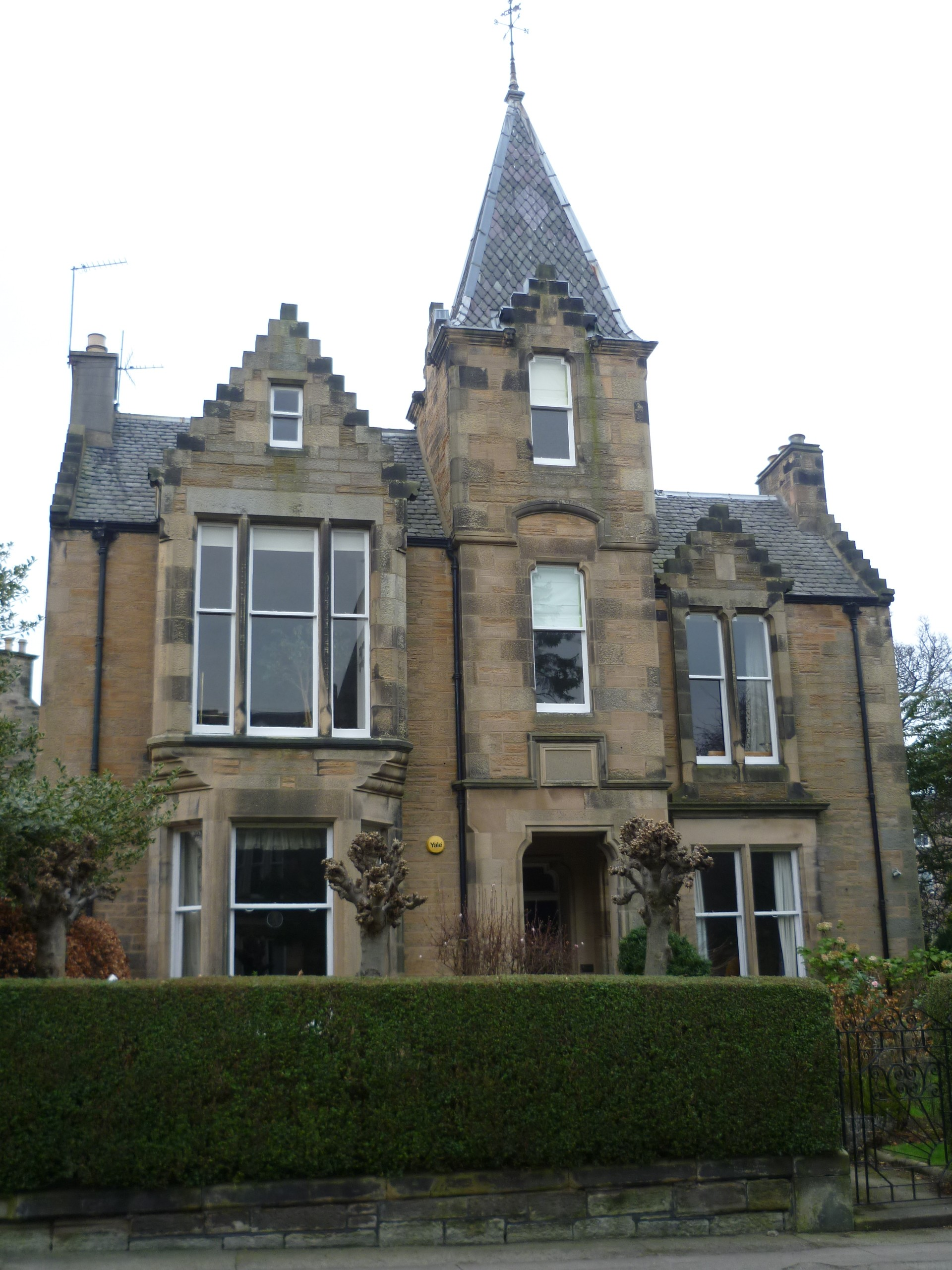 One of the many stone villas in the Sciennes-Grange area of Edinburgh